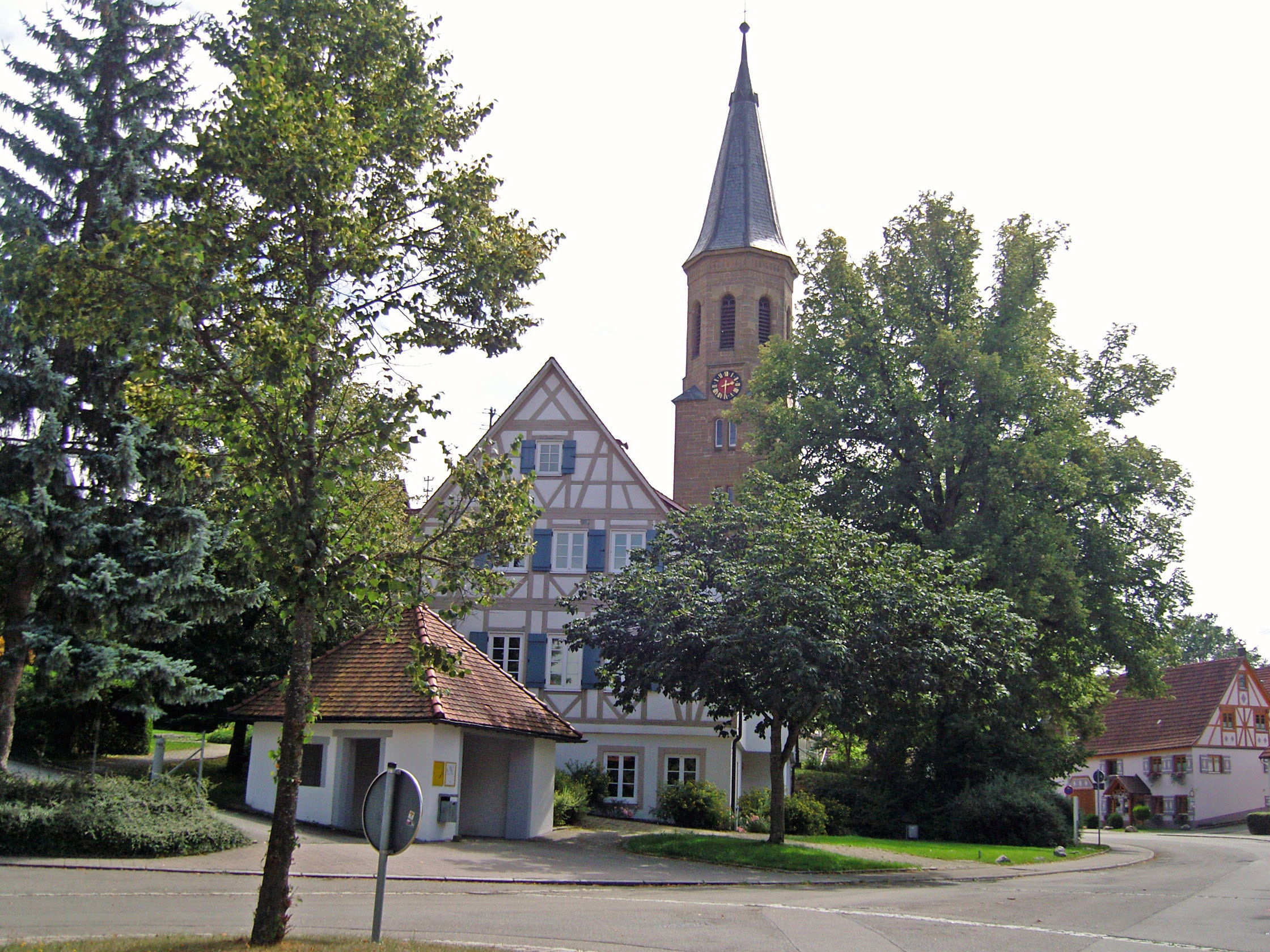 Church of Endingen